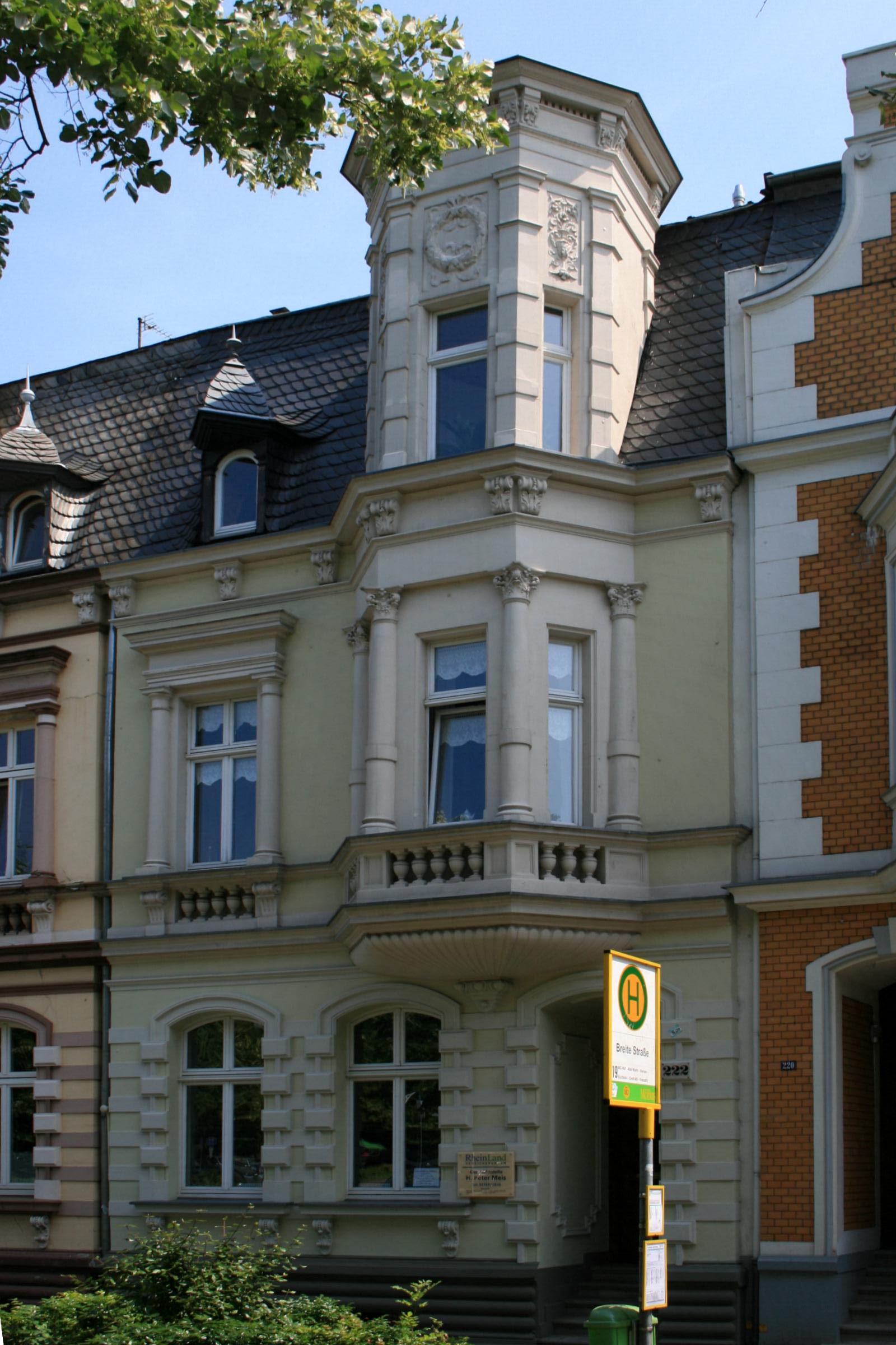 Cultural heritage monument No. B 070 in Mönchengladbach